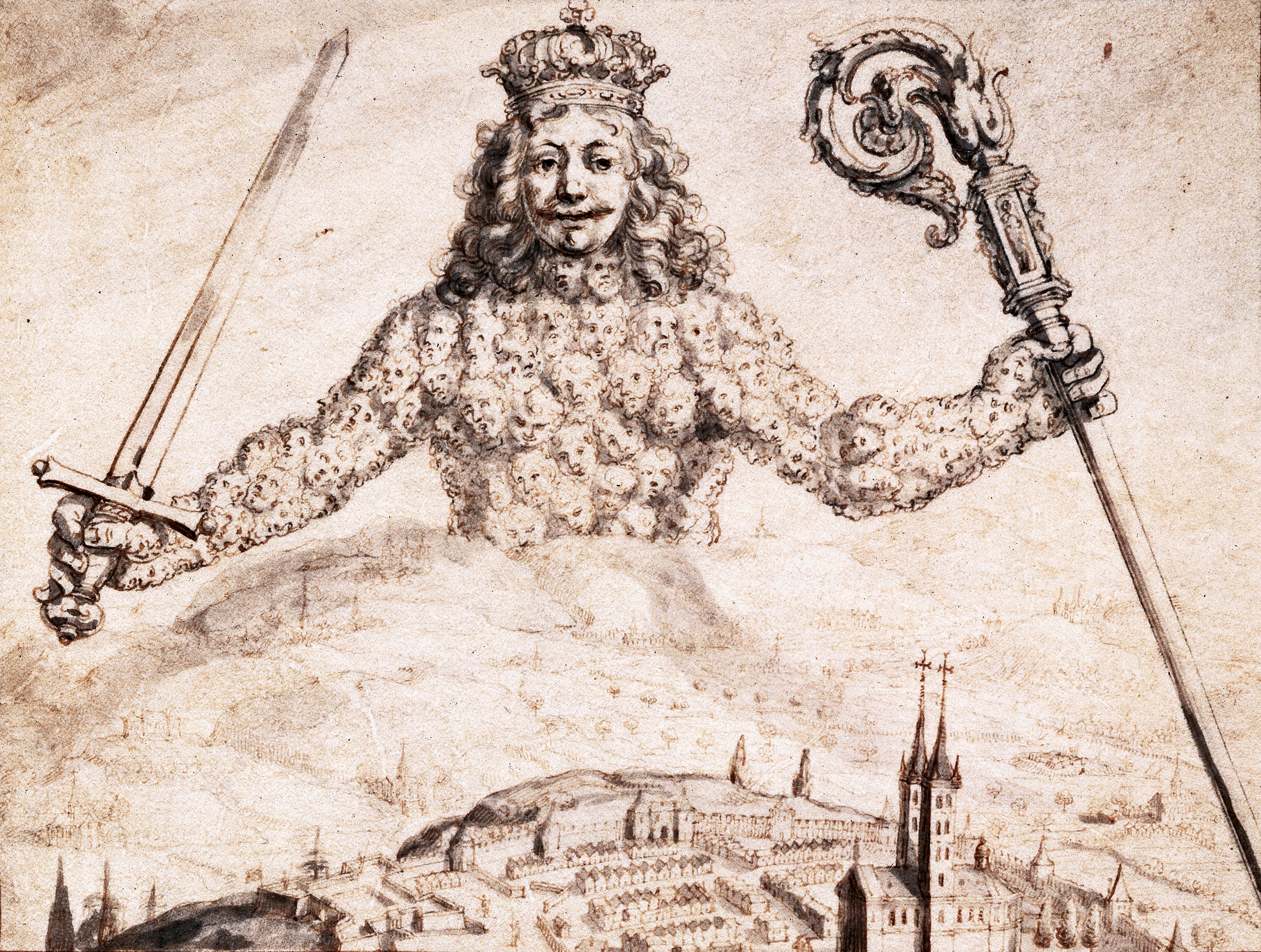 Ink drawing on manuscript offered by Thomas Hobbes to Charles II.